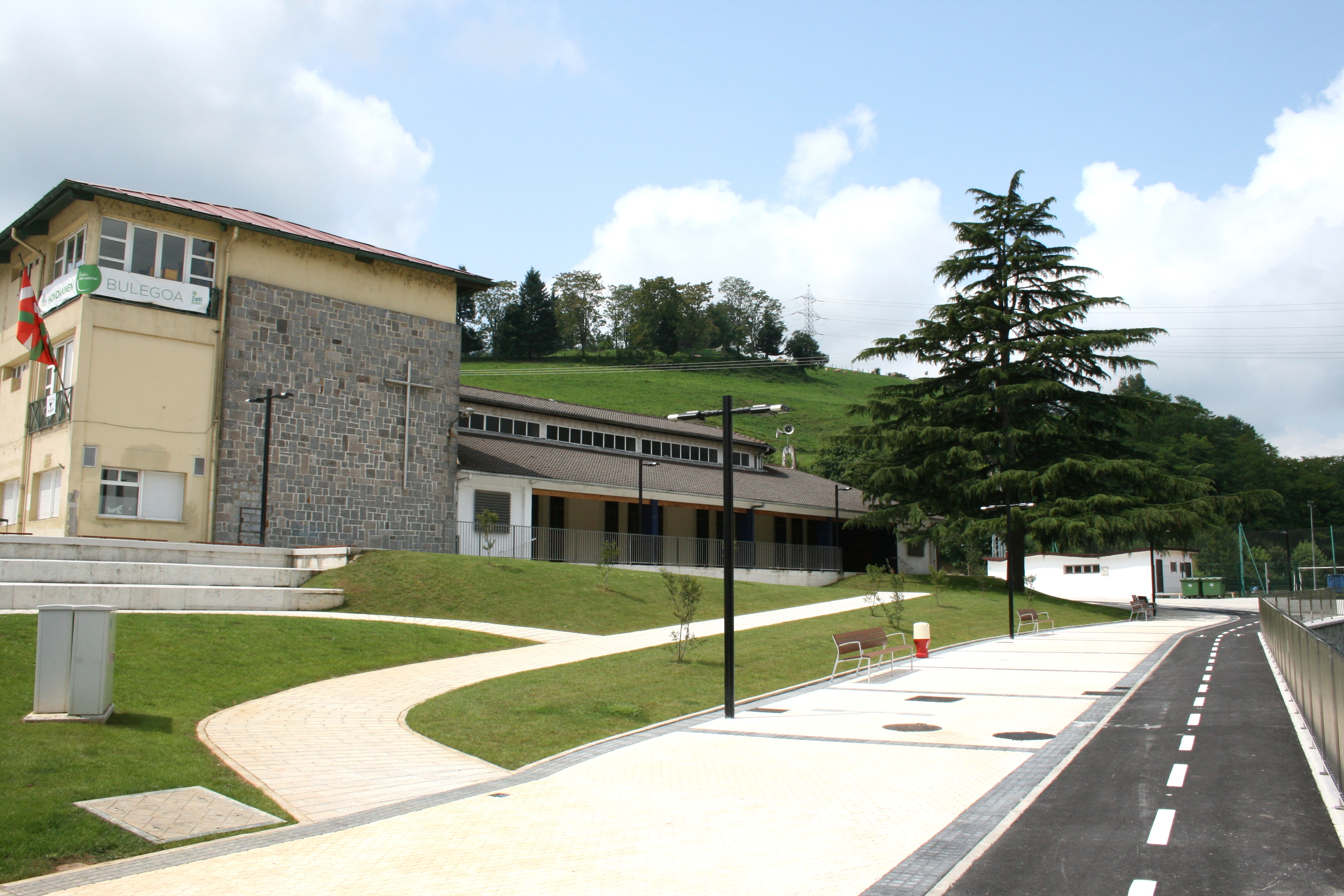 Arantzazuko Andre Maria (2014 / Joxin Azkue)